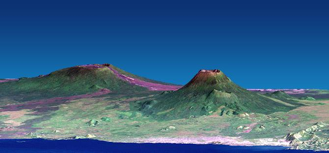 Depiction of the Nyiragongo and Nyamuragira volcanoes, based on data from the Shuttle Radar Topography Mission and Landsat. Vertical scale exaggerated (1.5x)